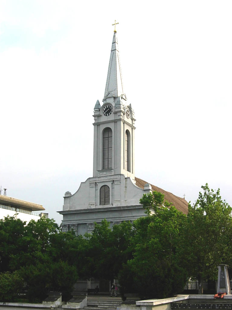 The Assumption of Blessed Virgin Mary Catholic Church in Bečej.